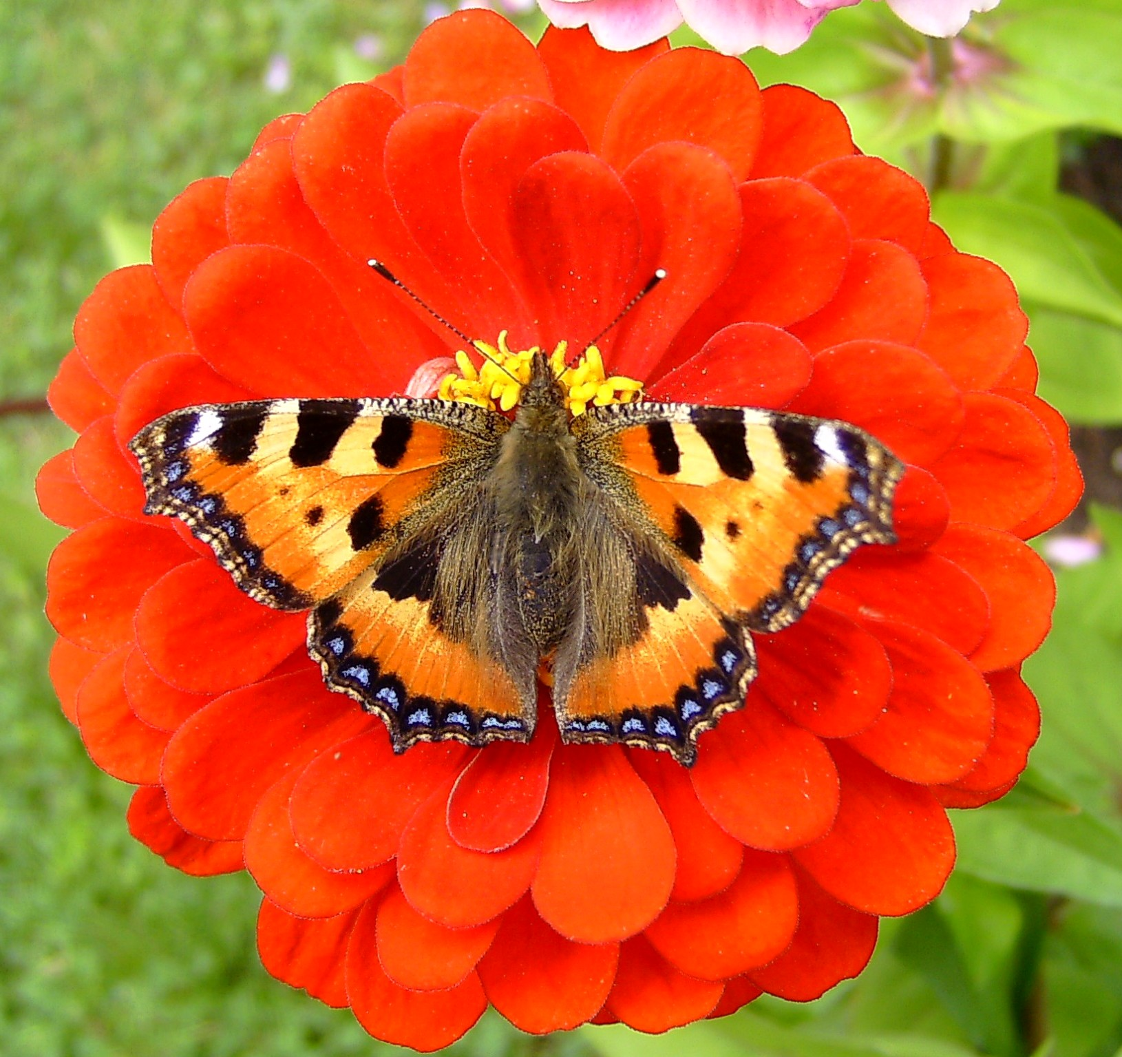 Aglais urticae, Frankfurt am Main, Germany